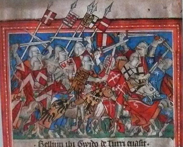 The followers of Henry VII defeat the revolt of Guido della Torre in Milan (12 February 1311), miniature in Codex Balduini Trevirensis (ca. 1340): Bellum ibi Gwido de Turri evasit. At the center is "a German knight" identified by or, two eagles sable fighting a Guelph leader, with gules, two lily scepters argent per saltire [the della Torre emblem]. The "German knight" has been identified with Werner von Homberg (Irmer, p. 45), who is given the same coat of arms in the Codex Manesse. Behind Werner is Duke Leopold I, with the Austrian Bindenschild. On the right, Konrad von Gundelfingen the later Deutschmeister of the Teutonic Order, is shown with argent, a cross sable of the Teutonic knights, fighting an Italian knight who has azure, semy of stars argent, apparently after just having beheaded another enemy. Four further German knights are identified by their coats of arms, Friedrich von Burtscheid with argent, three hearts (or vine leaves) gules; Walram of Luxembourg, with the Luxembourg lion, shown as thrusting a dagger into the neck of an enemy knight; Amadeus V, Count of Savoy with gules a cross argent for Savoy, Gottfried von dem Bongart with gules, a chevron argent for Limburg. Georg Irmer, Die Romfahrt Kaiser Heinrich's VII im Bildercyclus des Codex Balduini Trevirensis (1881).